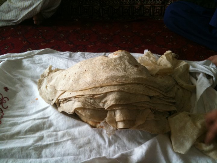 Rumali roti stacked on top of each other in Afghanistan.